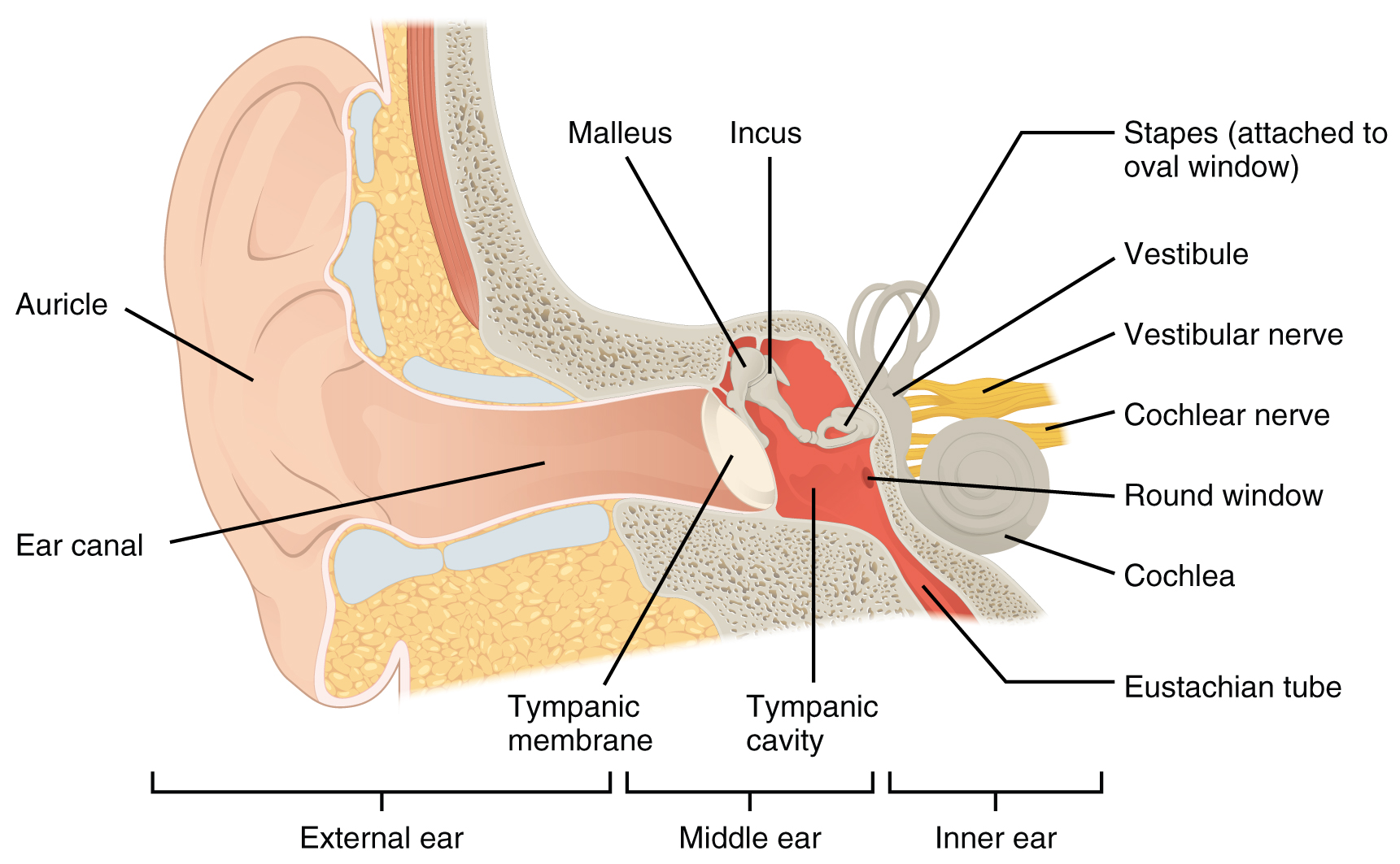 Version 8.25 from the Textbook OpenStax Anatomy and Physiology Published May 18, 2016